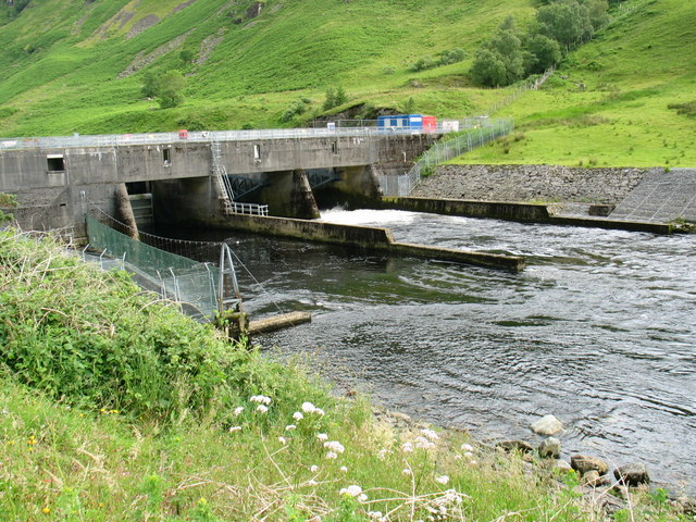 Brander Pass the Awe Barrage. What a sight watching the Salmon leaping here on their passage through the barrage to Loch Awe and its river tributaries.